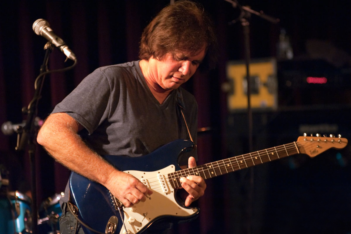 Carl Verheyen performing live during the Mustang Run Tour at Paradox in Tilburg (The Netherlands)